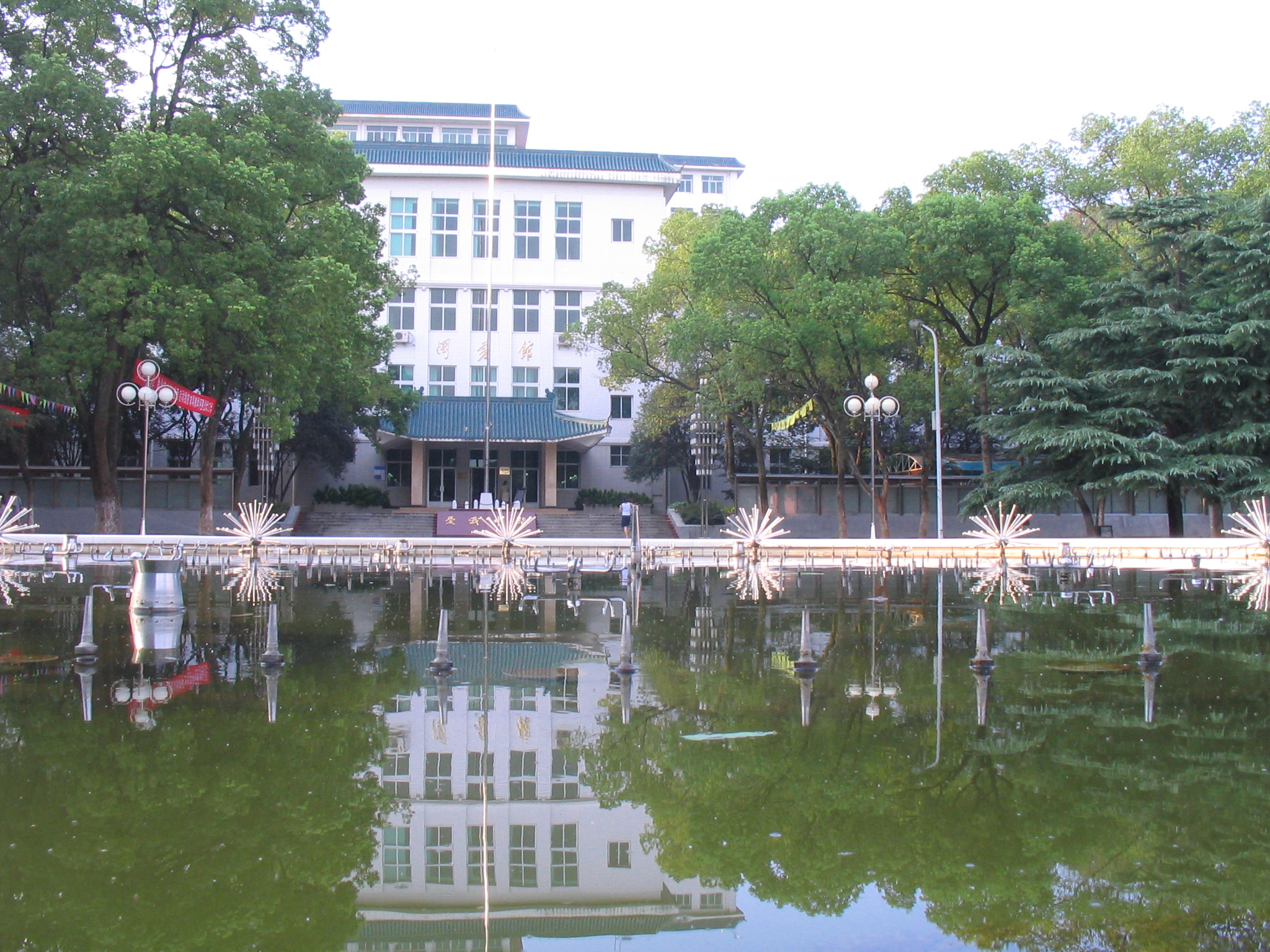 The old library of CCNU (Central China Normal University). Shot by wangyou0720, in CCNU, Wuhan City, China.